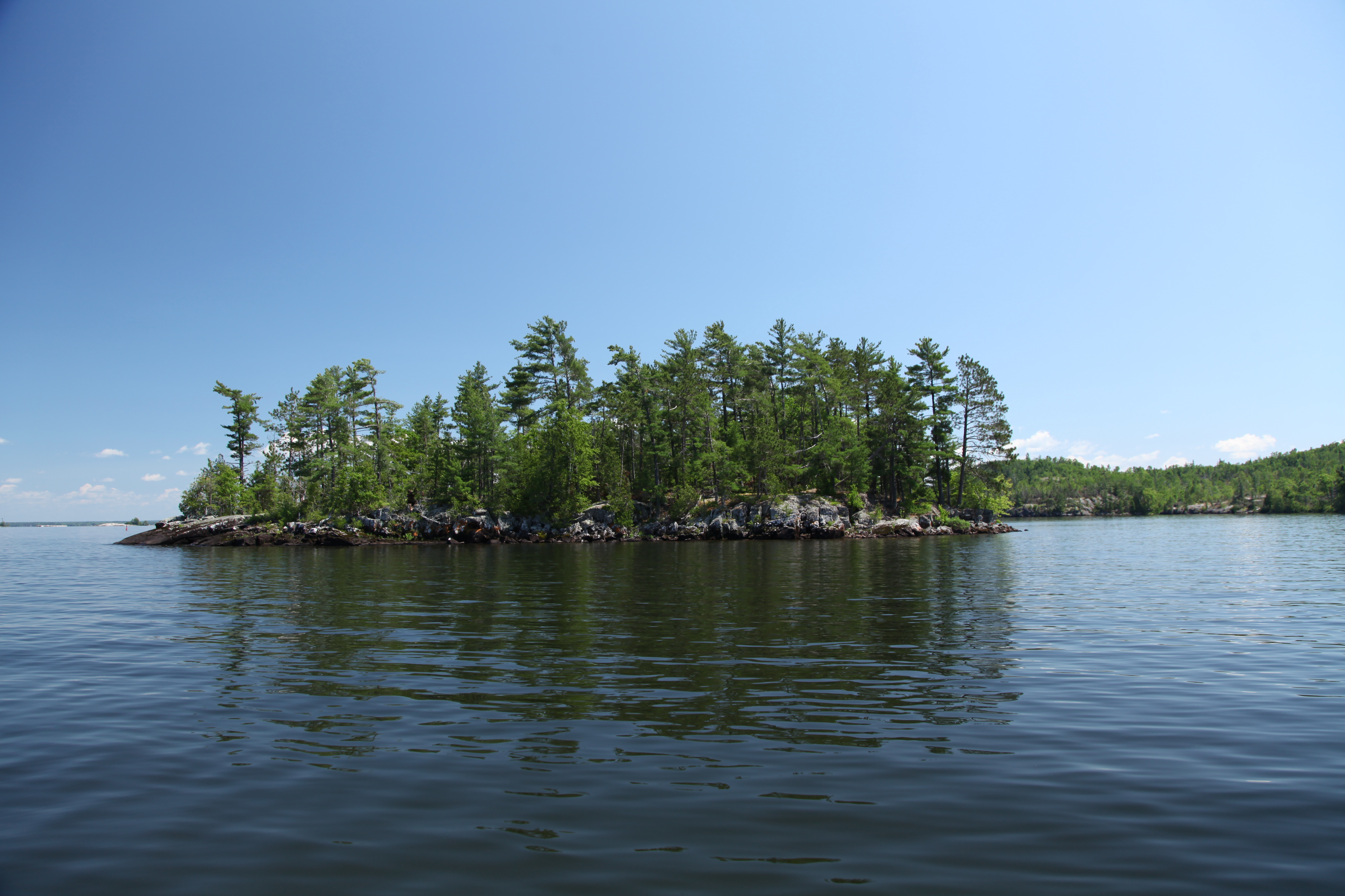 Island on Lake Nipissing